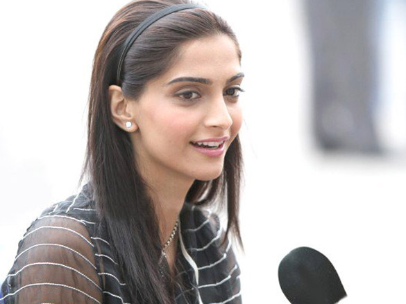 Sonam Kapoor on the sets of 'Thank You' (3)